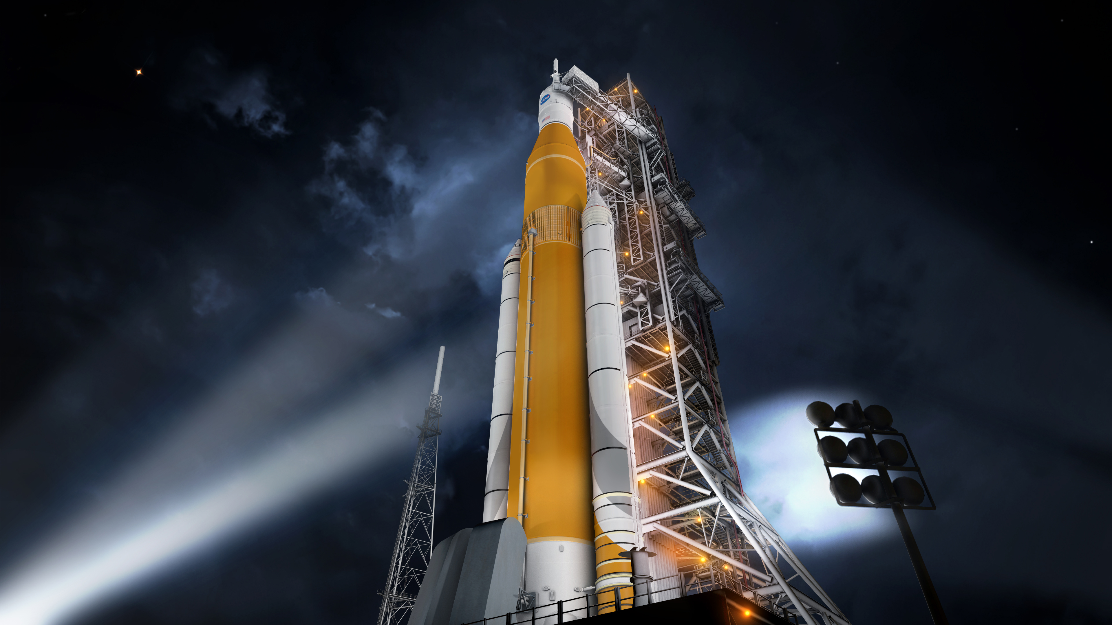 Artist concept of the SLS Block 1 configuration. For the first time in almost 40 years, a NASA human-rated rocket has completed all steps needed to clear a critical design review (CDR). The agency’s Space Launch System (SLS) is the first vehicle designed to meet the challenges of the journey to Mars and the first exploration class rocket since the Saturn V. SLS will be the most powerful rocket ever built and, with the agency’s Orion spacecraft, will launch America into a new era of exploration to destinations beyond Earth’s orbit.